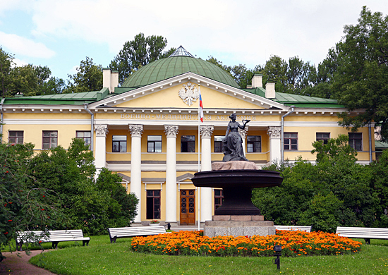 Russian Medical Military Academy. Main building.